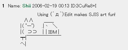 Example of SJIS art. This is me sitting at a computer attesting to how easy it is to draw SJIS art.